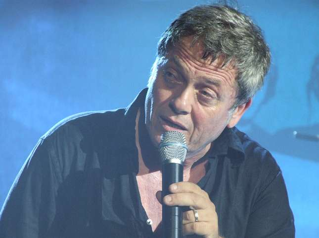 Shlomo Artzi at a show in Raanana